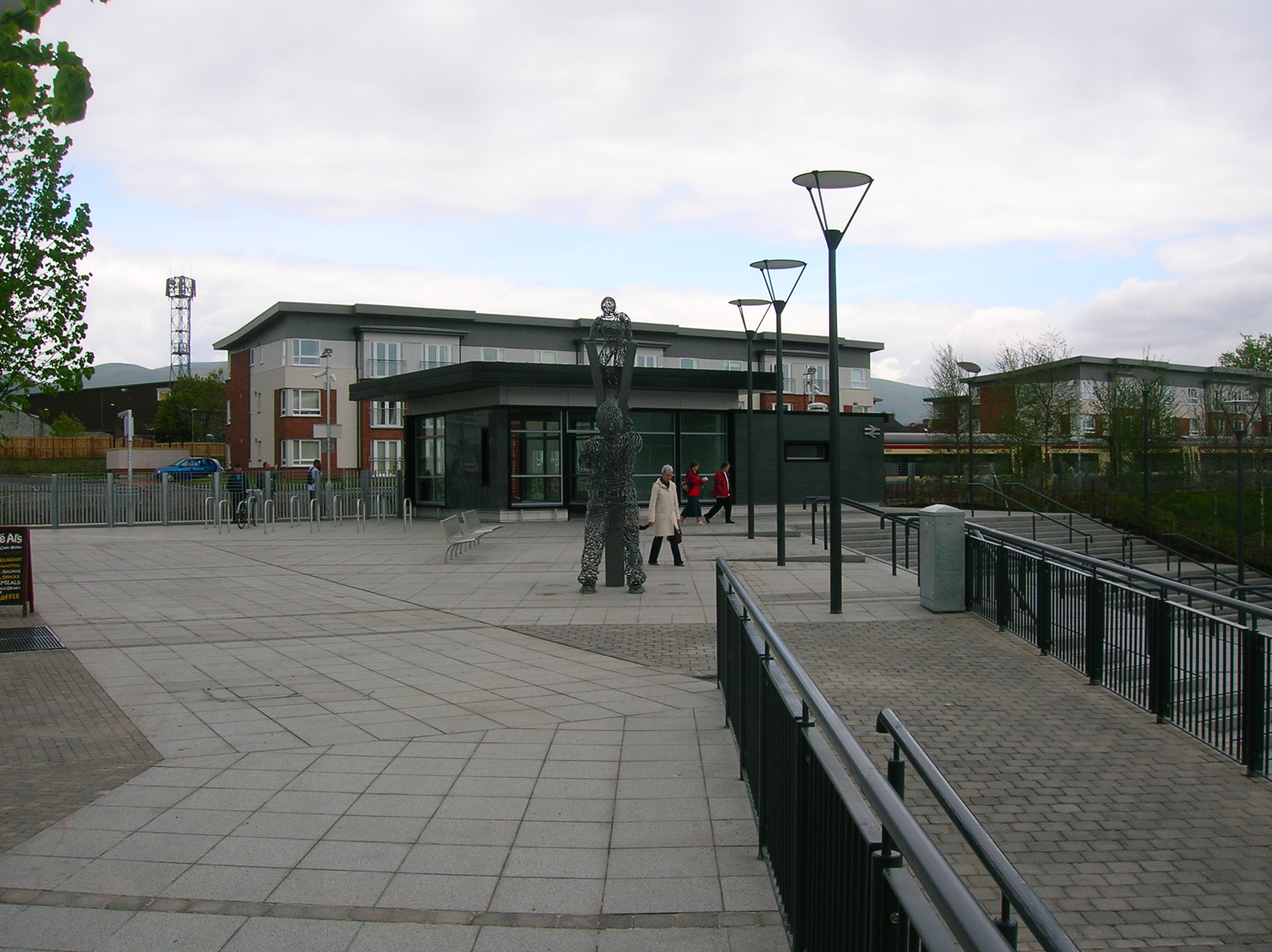 Alloa railway station frontage, Scotland